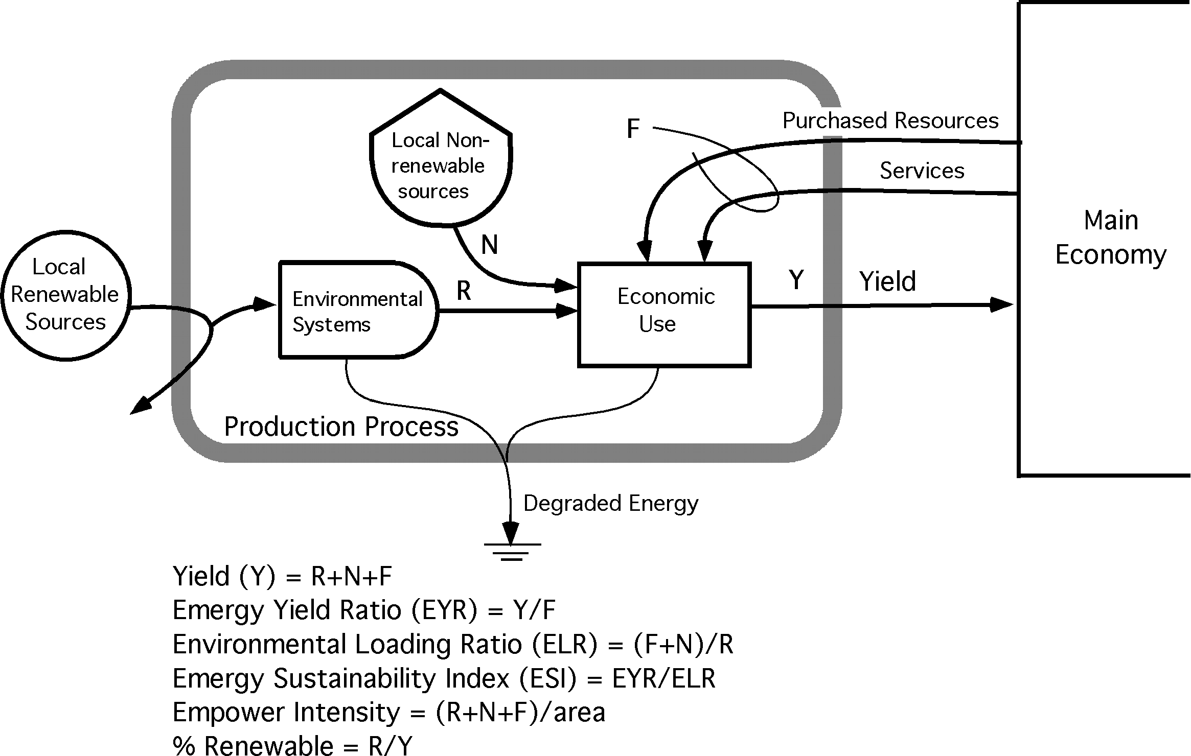 This image was created by Mark T. Brown. Mtbrown8 (talk) 09:54, 6 June 2010 (UTC)